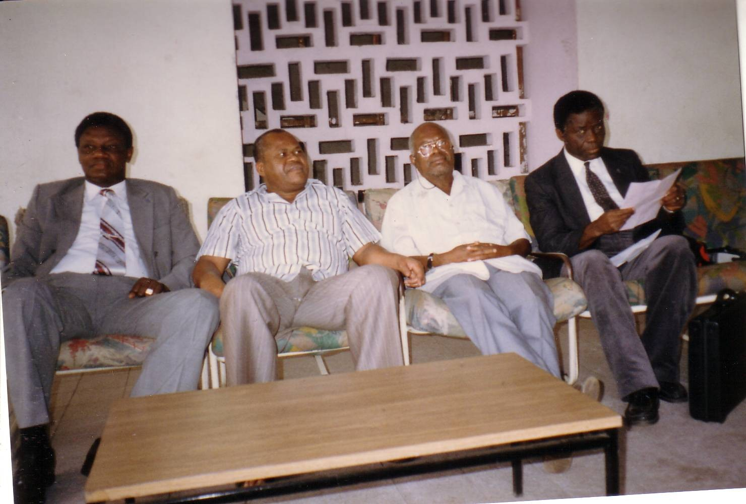 The Directorate of the Union pour la Démocratie et le Progrès Social (Union for Democracy and Social Progress) party of the Democratic Republic of the Congo. From left to right: Frédéric Kibassa Maliba, Étienne Tshisekedi, Vincent Mbwakiem, and Marcel Lihau. Date unknown, probably 1980s or early 1990s.